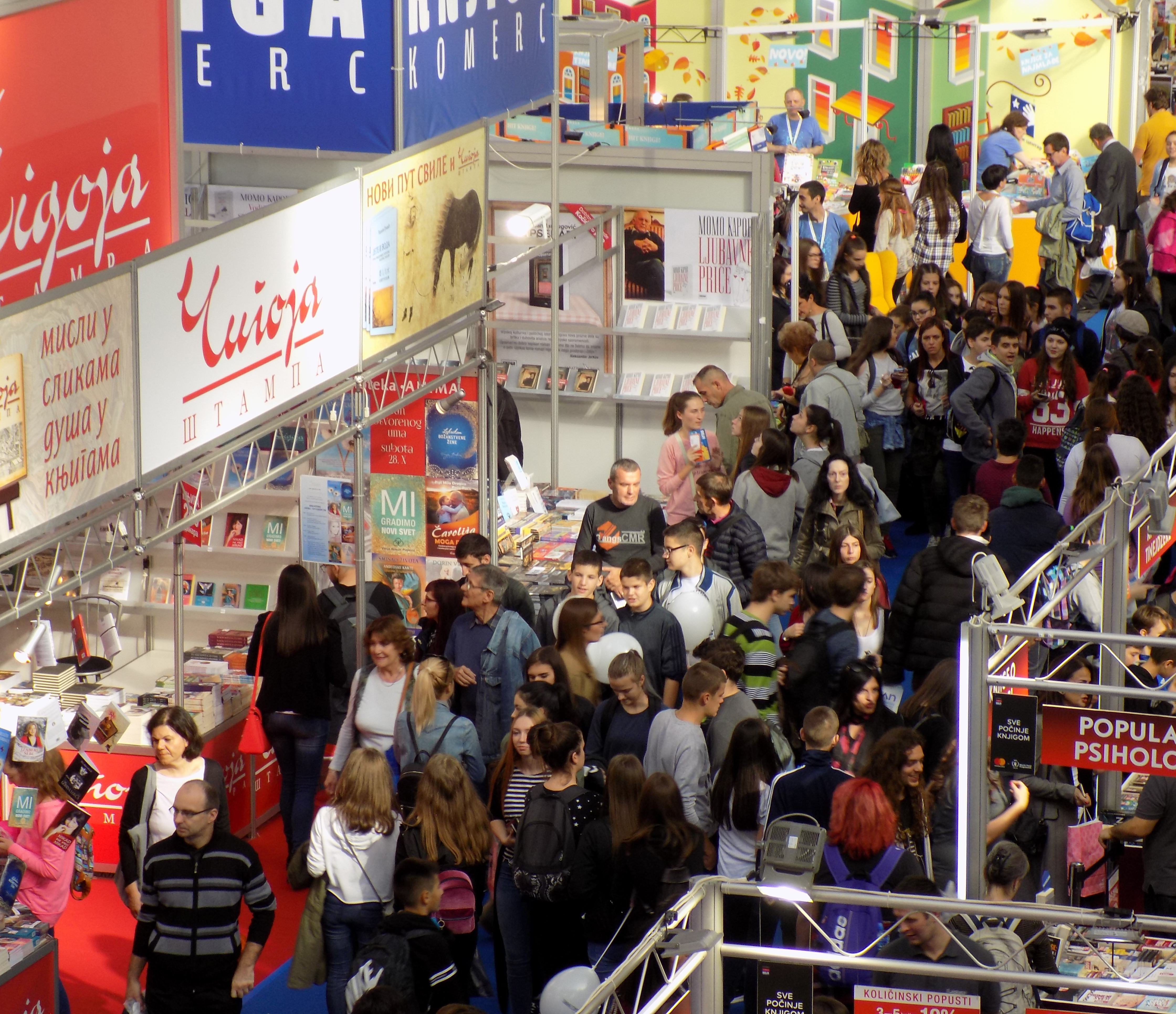 International Belgrade Book Fair 2017.